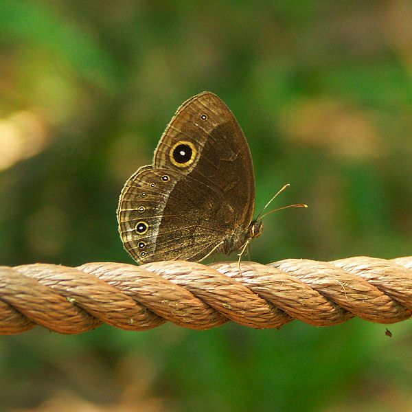 ssp. perdiccas